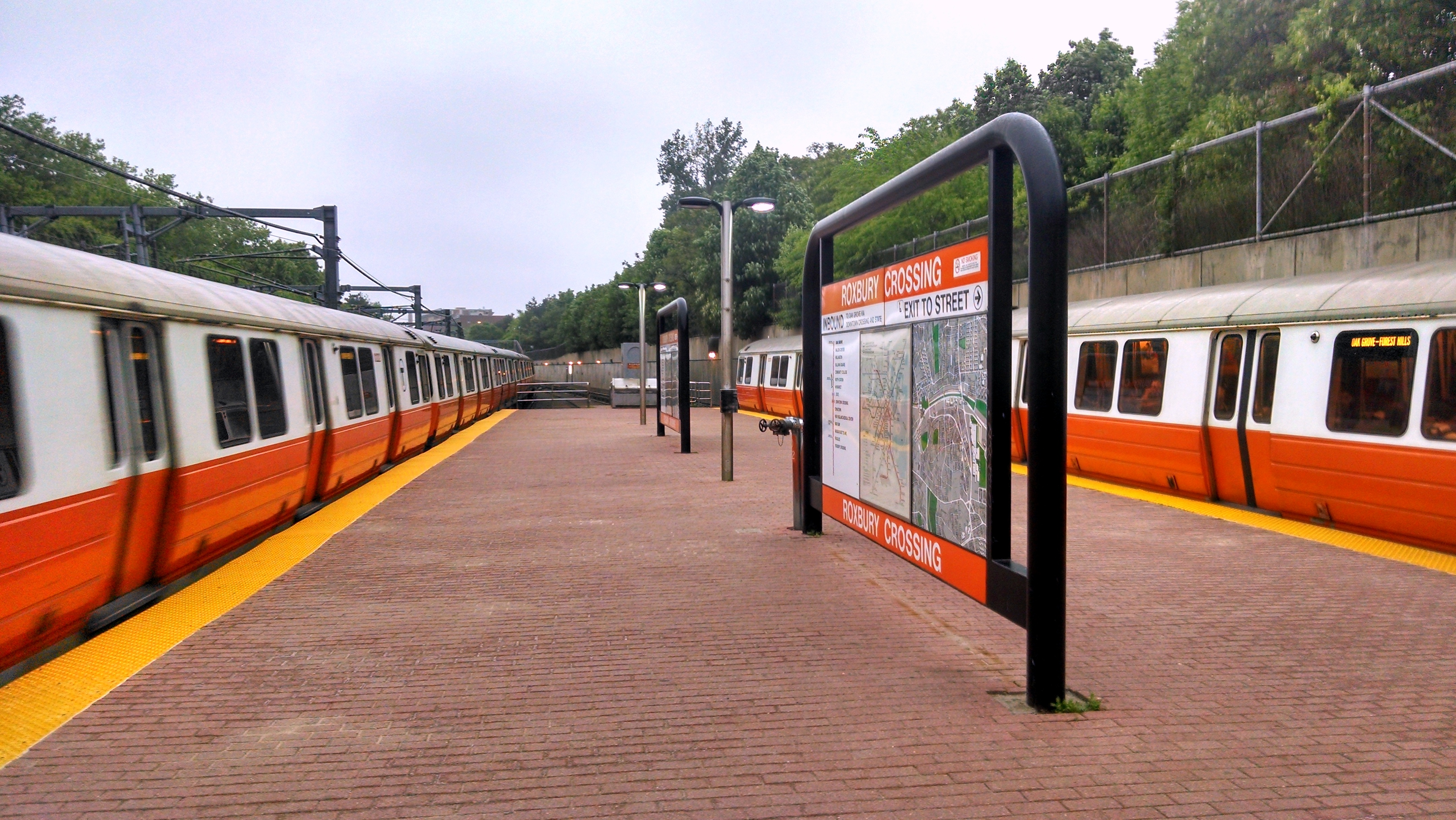 Two Orange Line trains at Roxbury Crossing station in May 2014